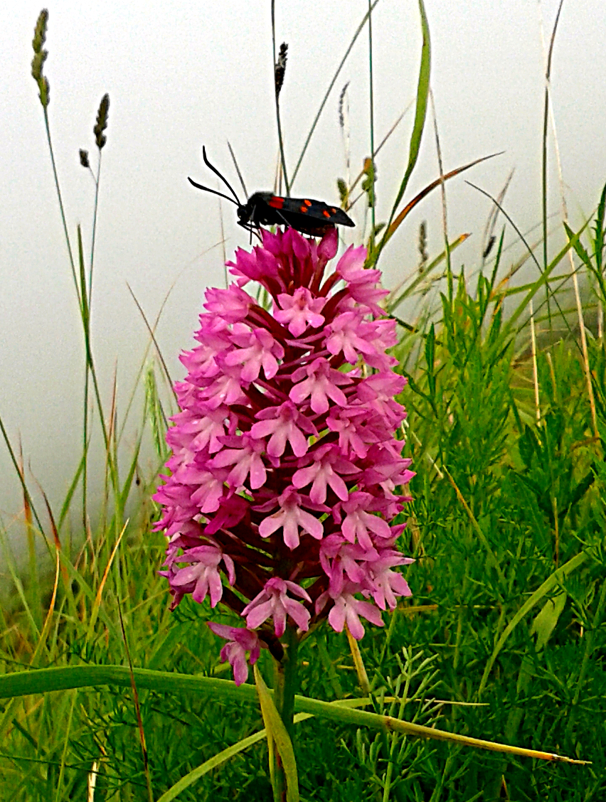 Zygaena loniceraeae on top of Anacamptis pyramidalis, photographed at Monte Fasce, Italiy, cropped, color enhanced, sharpened